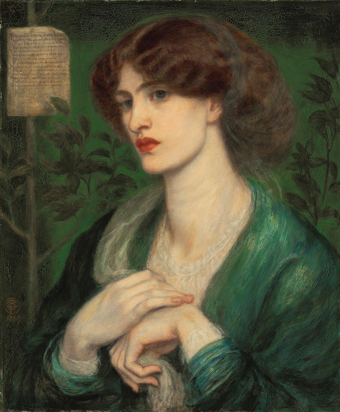 A previously unpublished portrait of Jane Morris, known only through a private letter to the sitter, to be auctioned at Christie's, 31 May 2012.